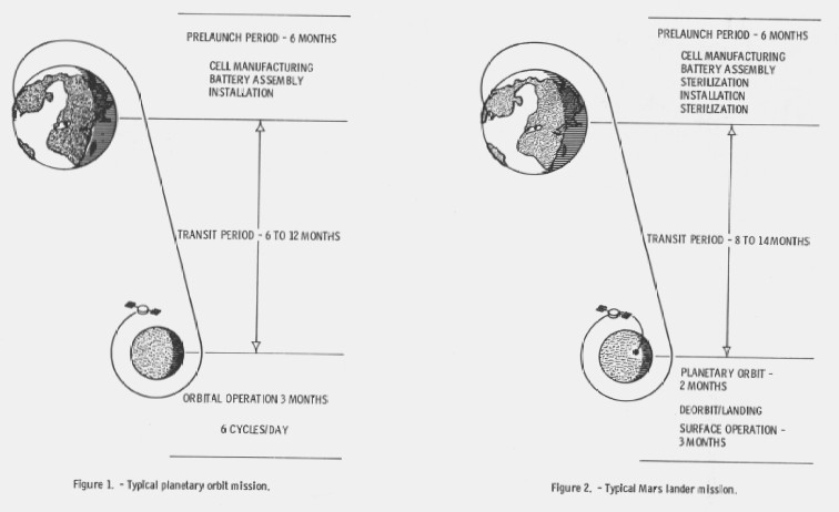 Hypothetical planetary orbit (Venus or Mars) mission and Mars landing missions